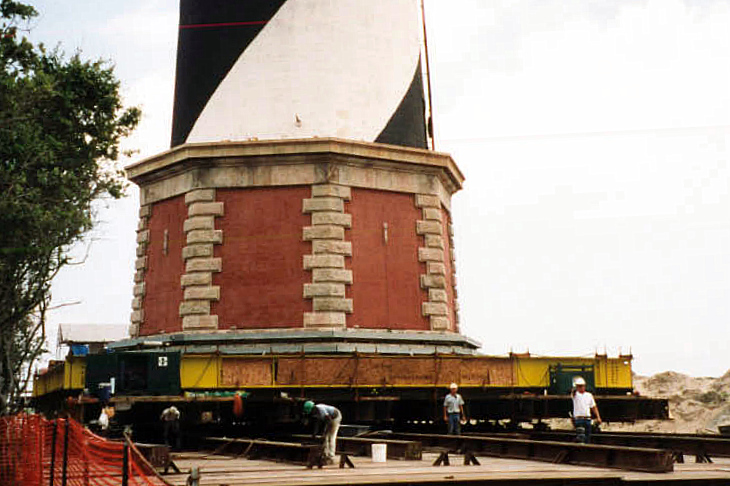 Workers prepare the Cape Hatteras Light to move a few inches more